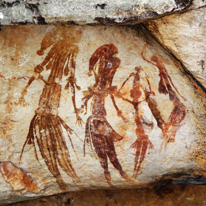 Bradshaw rock paintings in the Kimberley region of Western Australia, taken at a site off Kalumburu Road near the King Edward River.